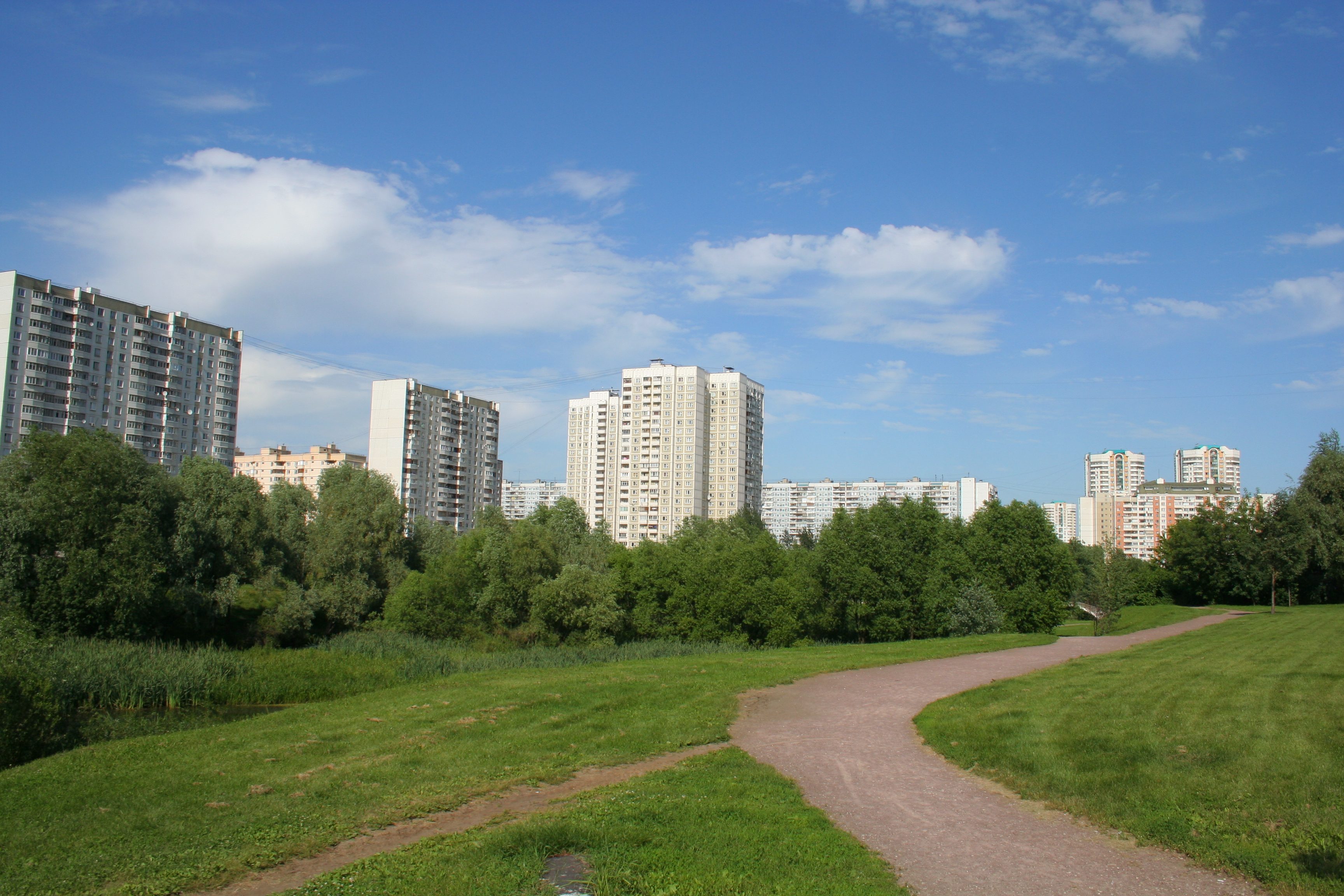 Apartment houses in the Moscow district Brateevo.